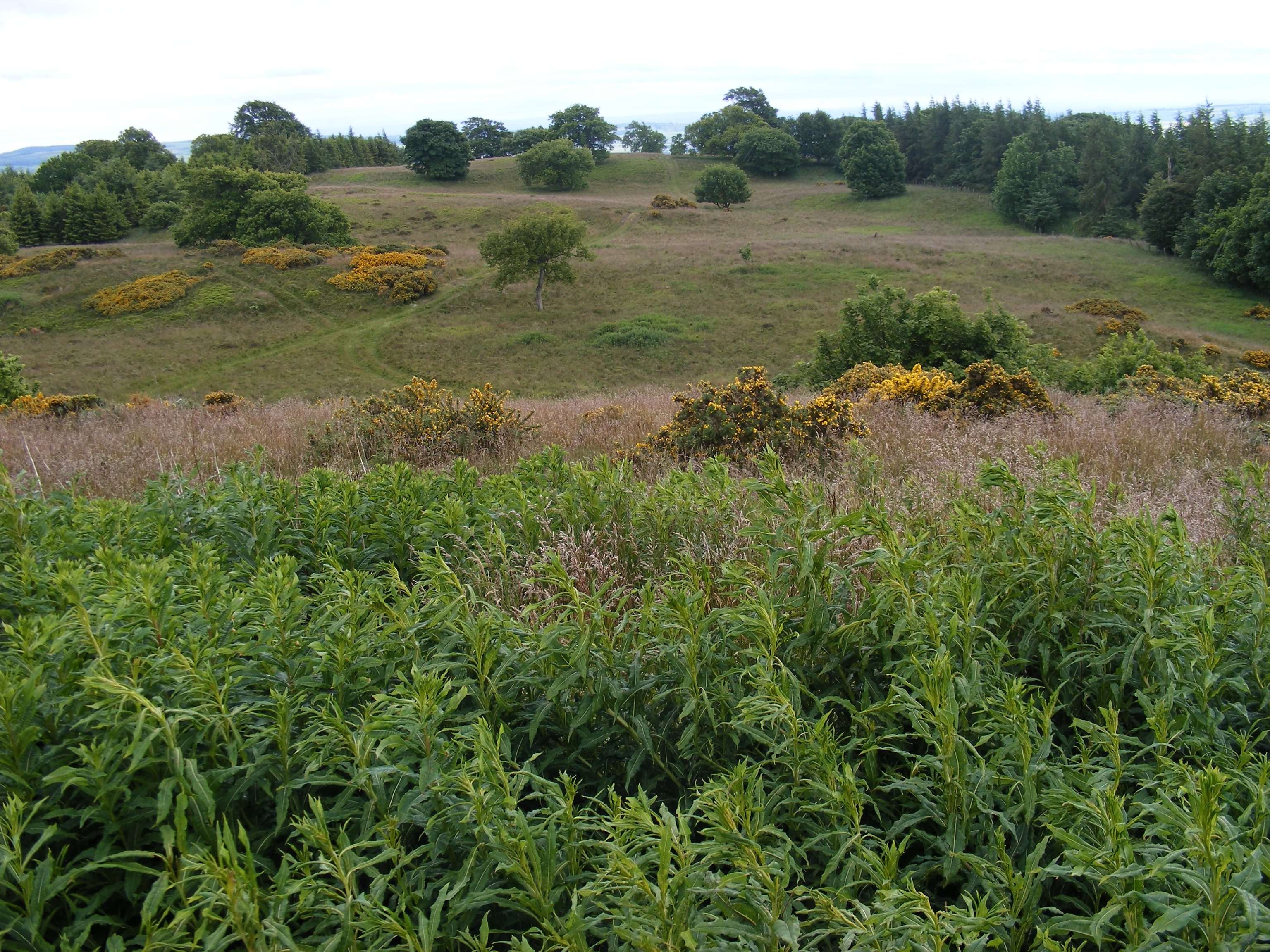 Cairnie Hill summit landscape